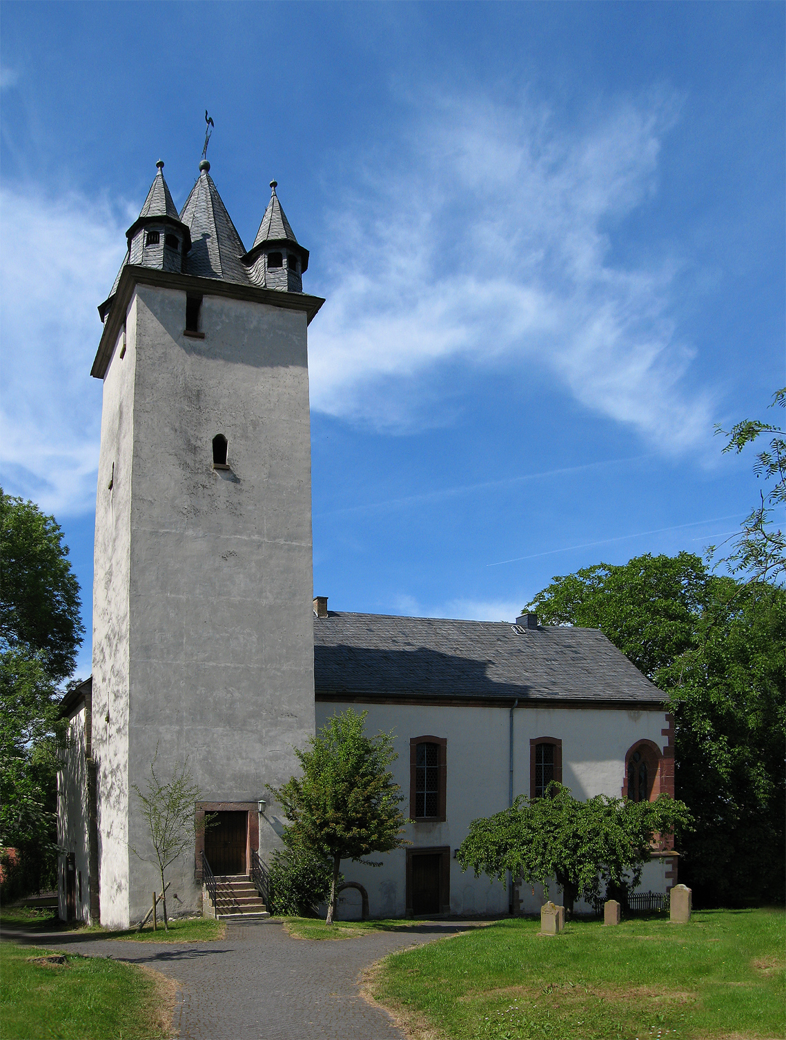 Church of Ebsdorf